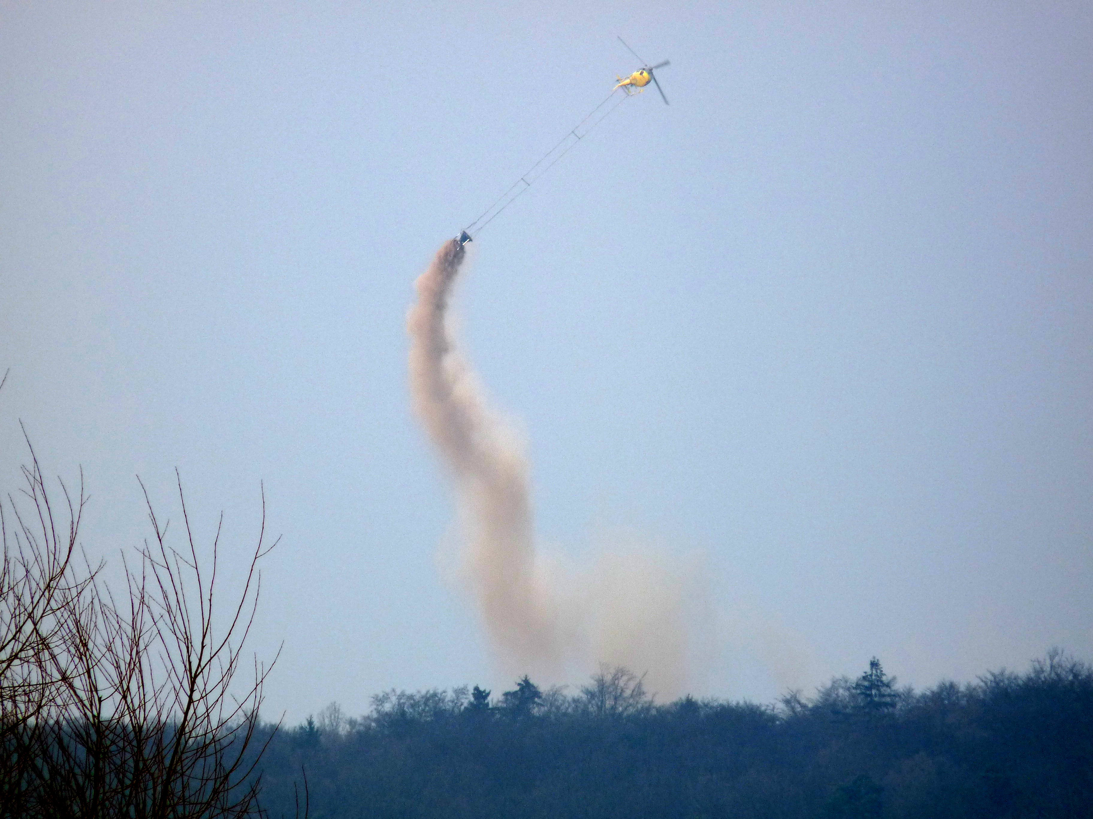 Forest liming